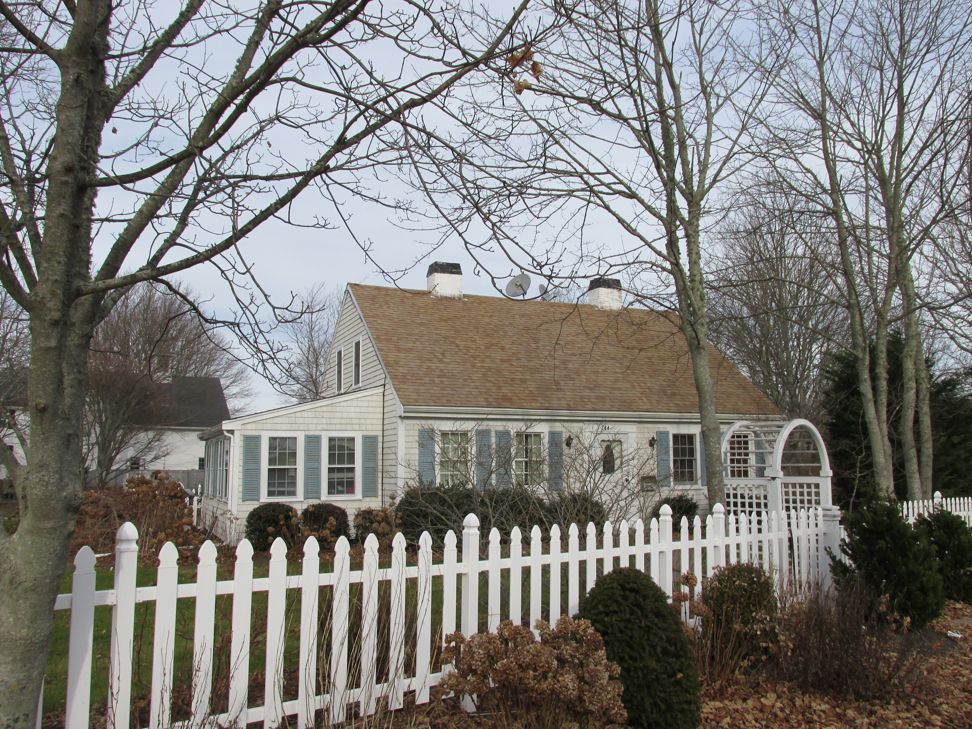 284 Gosnold St, Hyannis Massachusetts